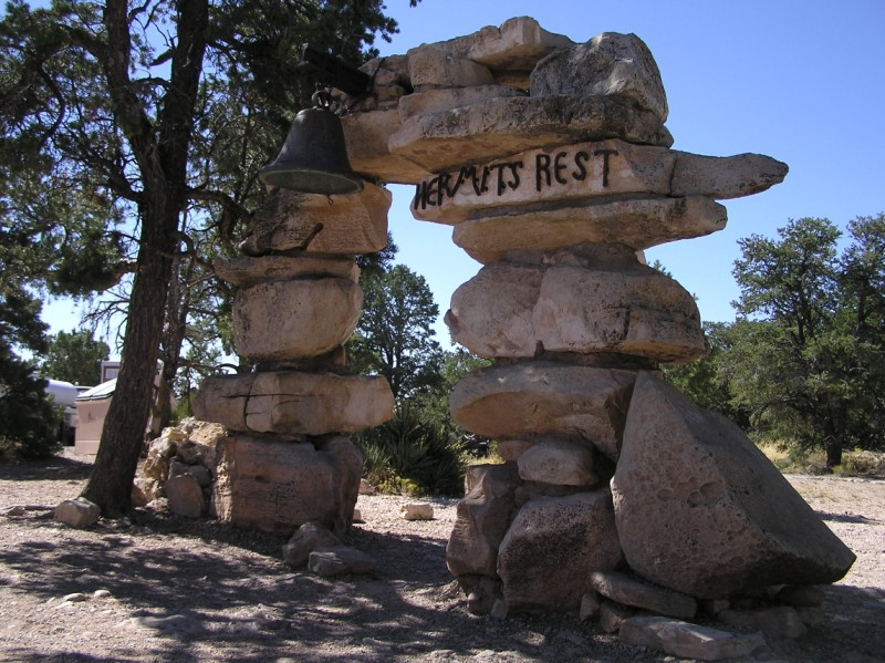 The Arch at Hermit's Rest, Grand Canyon National Park, Arizona, United States. Hermit's Rest is listed on the US National Register of Historic Places and is a component of the Mary Jane Colter Buildings, a designated National Historic Landmark.